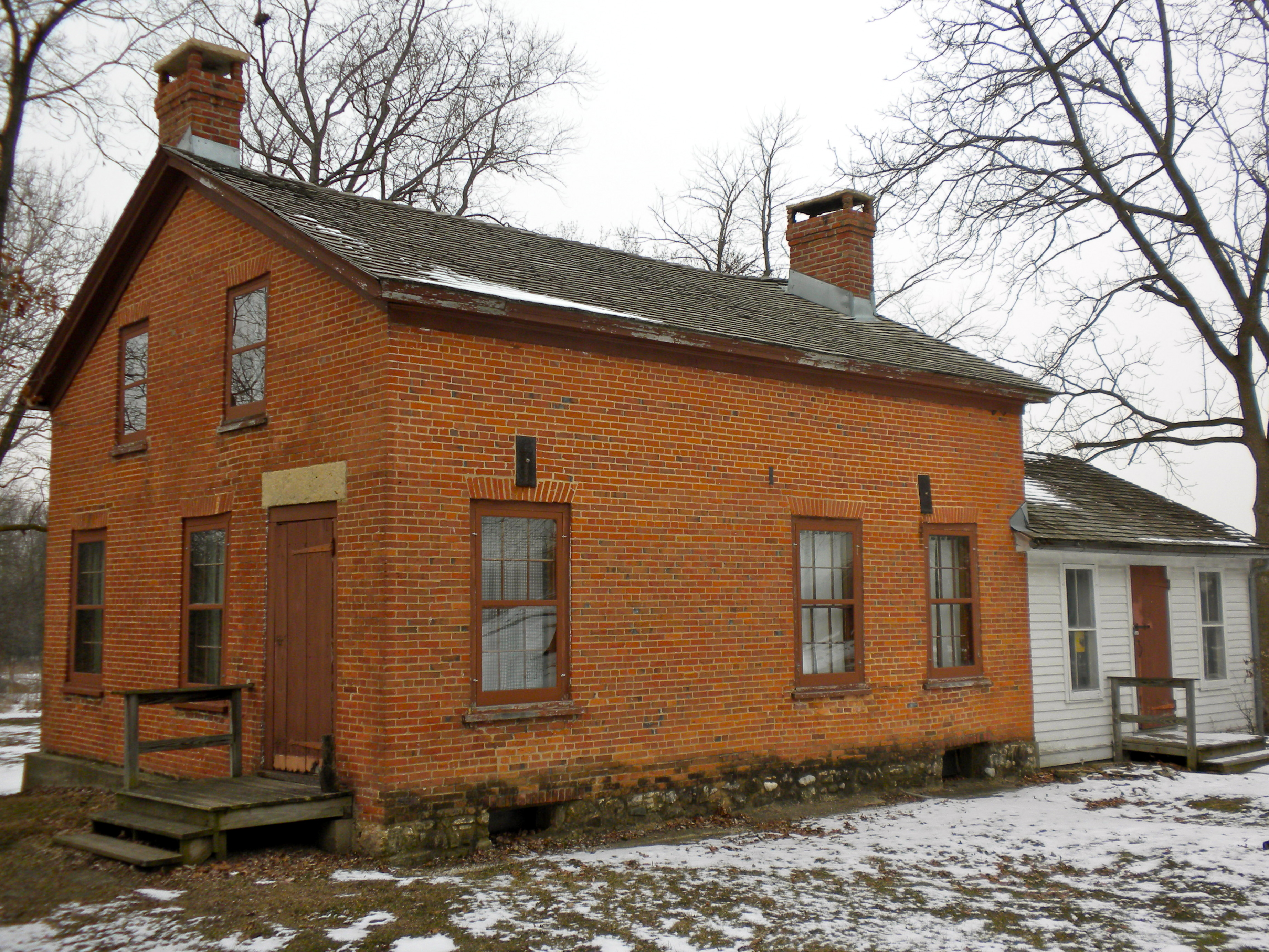 Durant House in Kane County, Illinois near St. Charles. On NRHP since June 18, 1976 NW of St. Charles off Dean St. According to a sing on the property "Durant House Museum" the Durant family arrived in Kane County in 1837 and built the vernacular Greek Revival House in 1843, and raised 6 children there. restored by a joint project of Kane County and the Forest Preserve District of Kane County